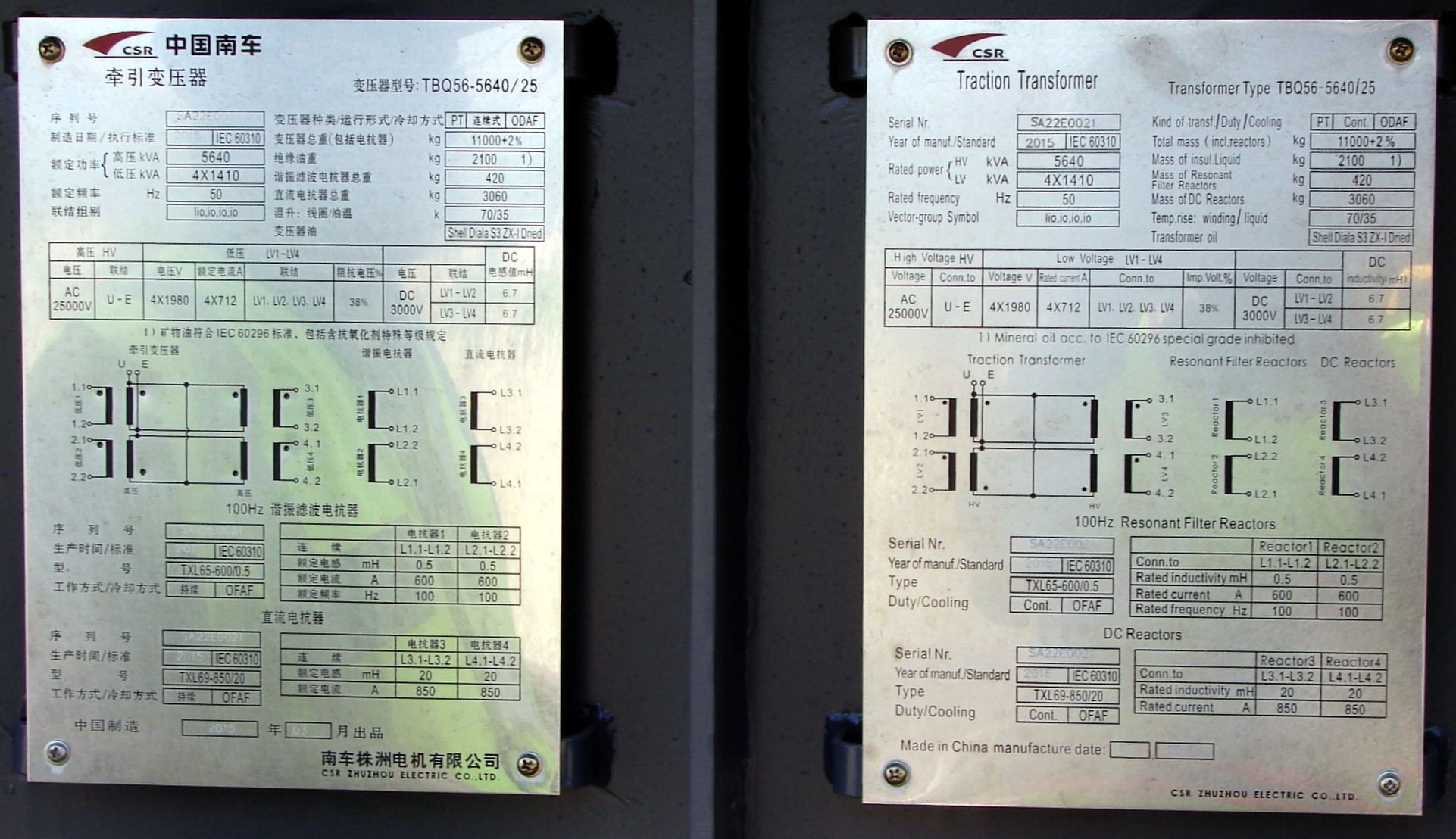 Specification plates, in Chinese and English, on TFR Class 22E no. 22-013Location: Pyramid South